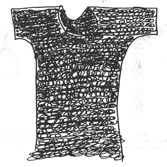 A sketch of Waju Ronte (chain mail).